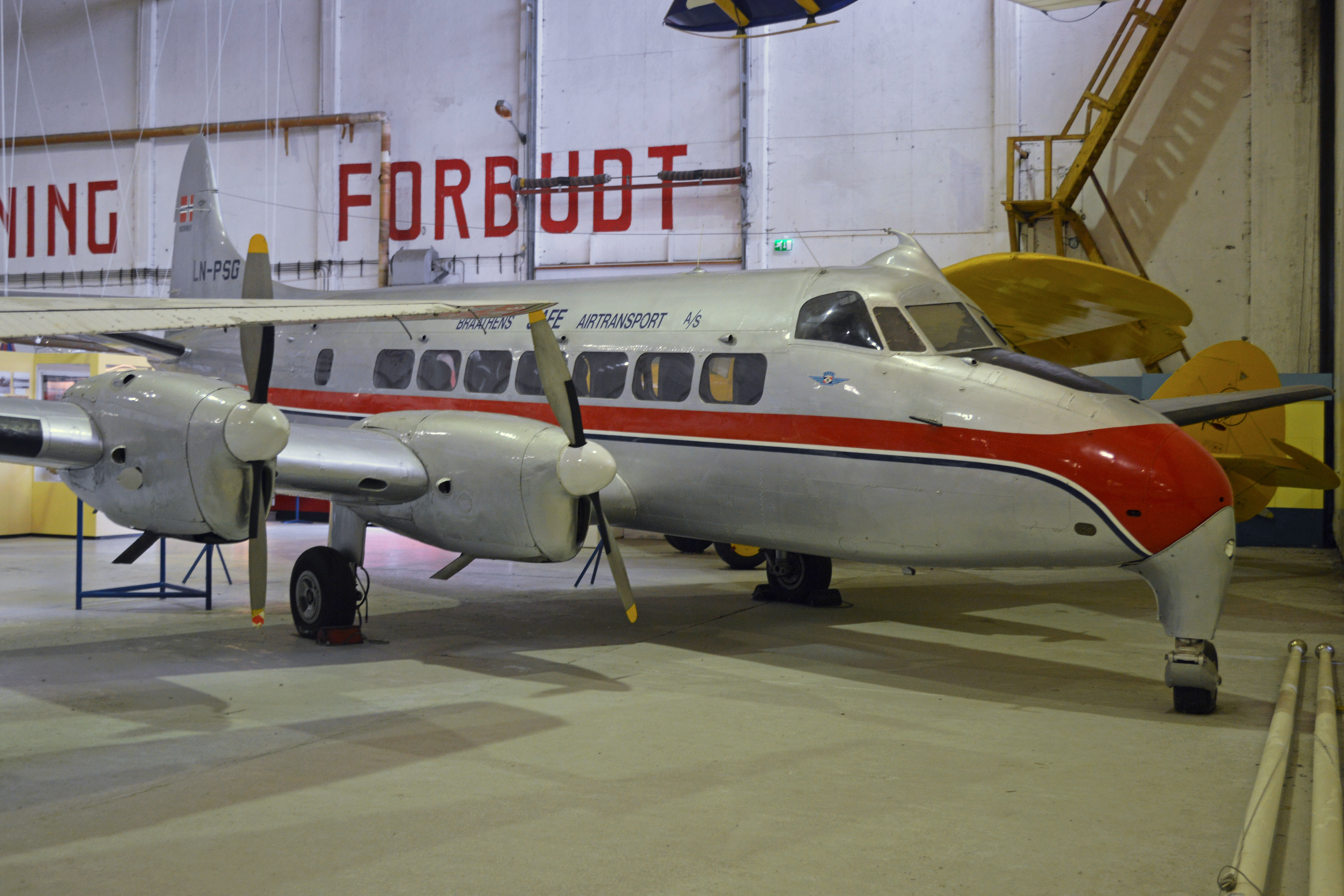 c/n 14015. Built in 1953 for Garuda Indonesia Airways as PK-GHB. By April 1957 she was back in the UK as G-AOXL and flew with Morton Air Services until late 1971, including a period in the late 1960’s operating for British United Island Airways. She was then sold to Fjellfly in Norway and registered as LN-BFY. Sadly, the operation folded before the Heron entered service and she remained stored at Geiteryggen until 1984. She then joined the museum at Sola and was painted to represent ‘LN-PSG’ of Braathens S.A.F.E., an aeroplane based at Stavanger during the 1950’s. Well preserved, she remains on display at the Flyhistorisk Museum, Sola, Norway. 10th June 2017 NOTE:- The Heron preserved outside the old Croydon Airport Terminal in South London is painted as G-AOXL during her time with Morton Air Services, but is actually G-ANUO, c/n 14062.